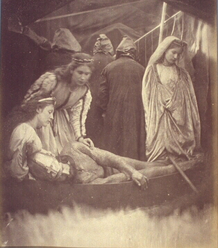 King Arthur wounded lying in the barge, albumen print, 33.9 x 29.0 cm.